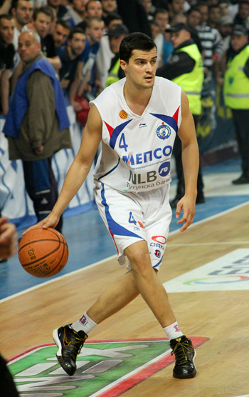 Ognen Stojanovski in MZT Skopje jersey